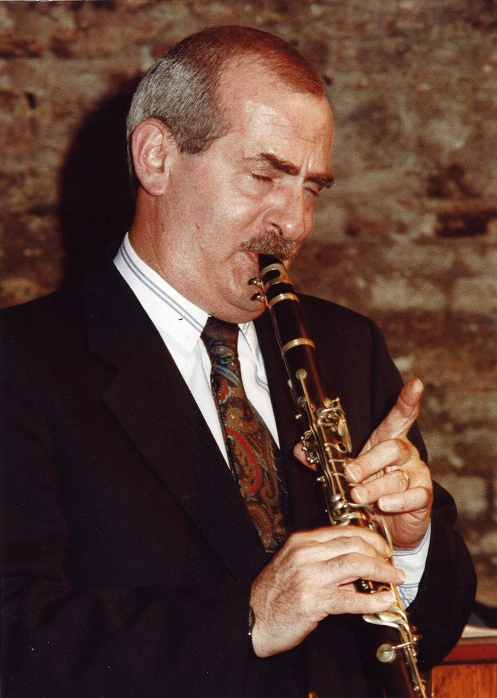 Kenny Davern in 1992, by PhotoBrunner, taken in Jazzland, Vienna